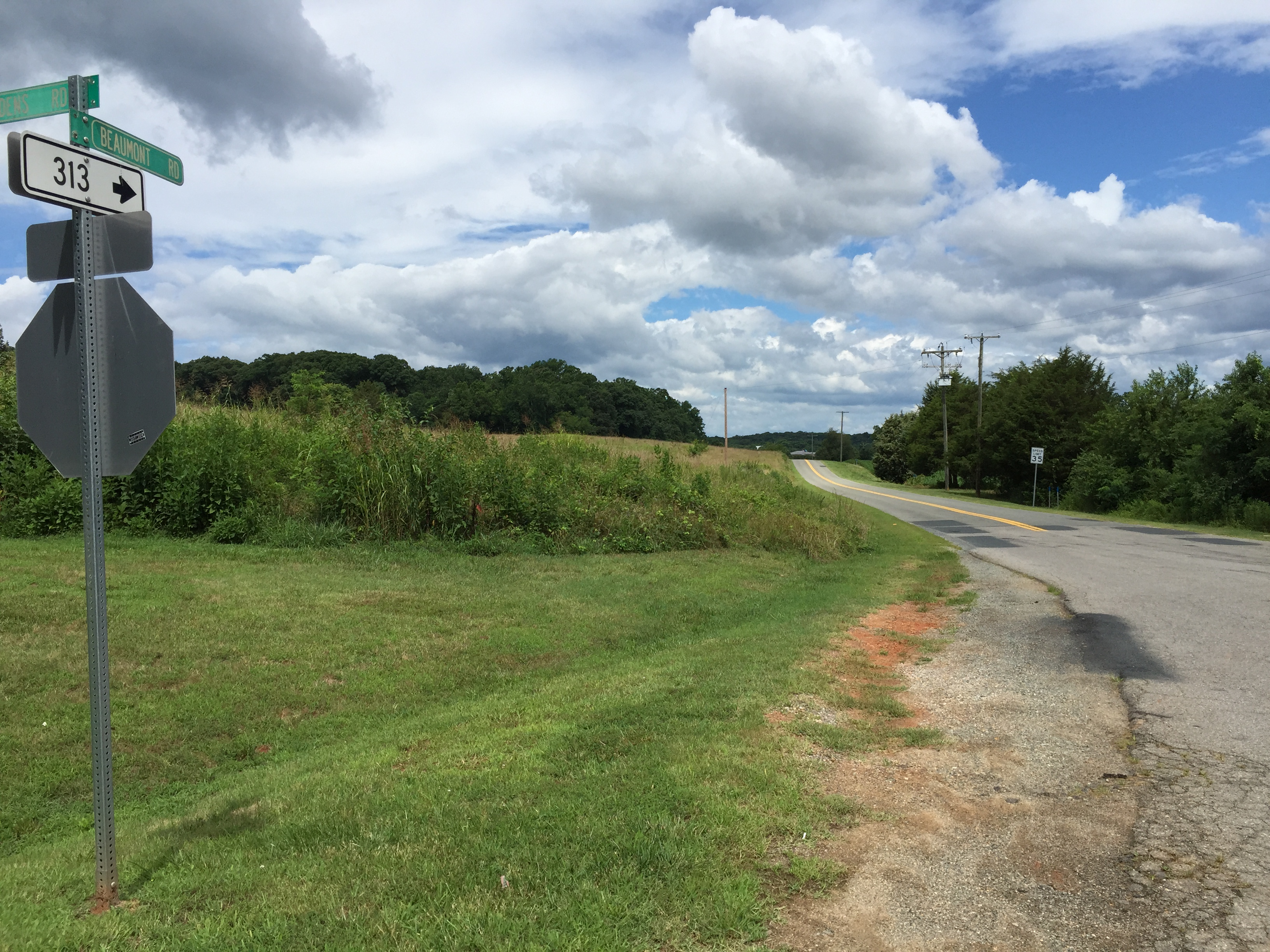 View west along Virginia State Route 313 (Beaumont Road) at U.S. Route 522 (Maidens Road) in Michaux, Powhatan County, Virginia